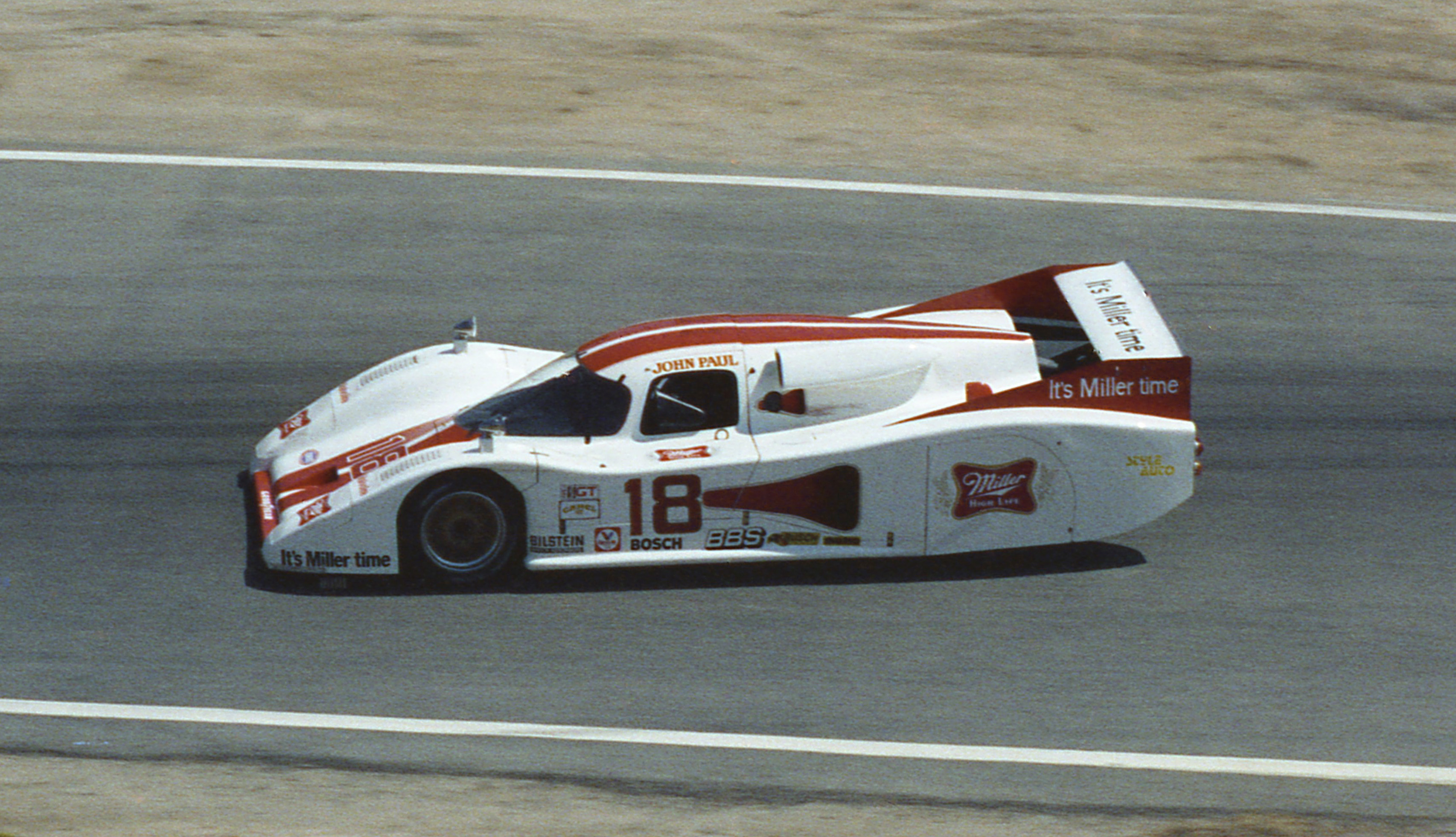 Lola T600 racing car, driven by John Paul, Jr. at Laguna Seca Raceway, Monterey, Calif., USA.